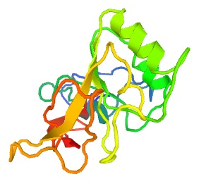 Diagrama de cintes de la Sericina, based on PDB: 1sh7​ (likely incorrect)